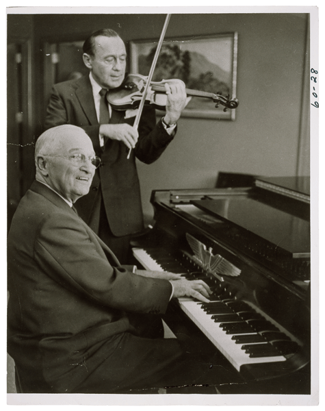 Photograph of President Harry S. Truman Playing the Piano While Jack Benny Plays the Violin.